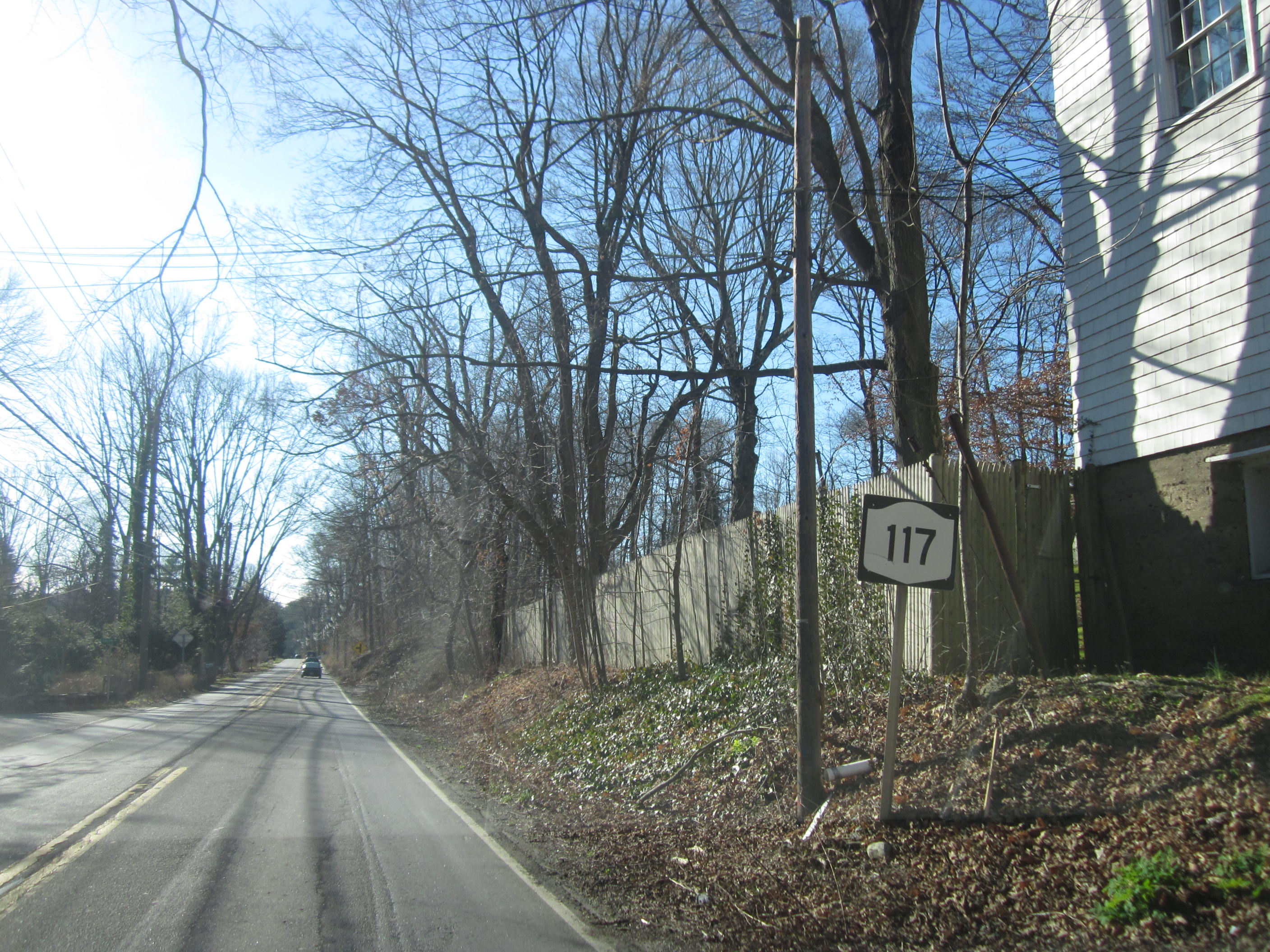 New York State Route 117 southbound south of Chappaqua.